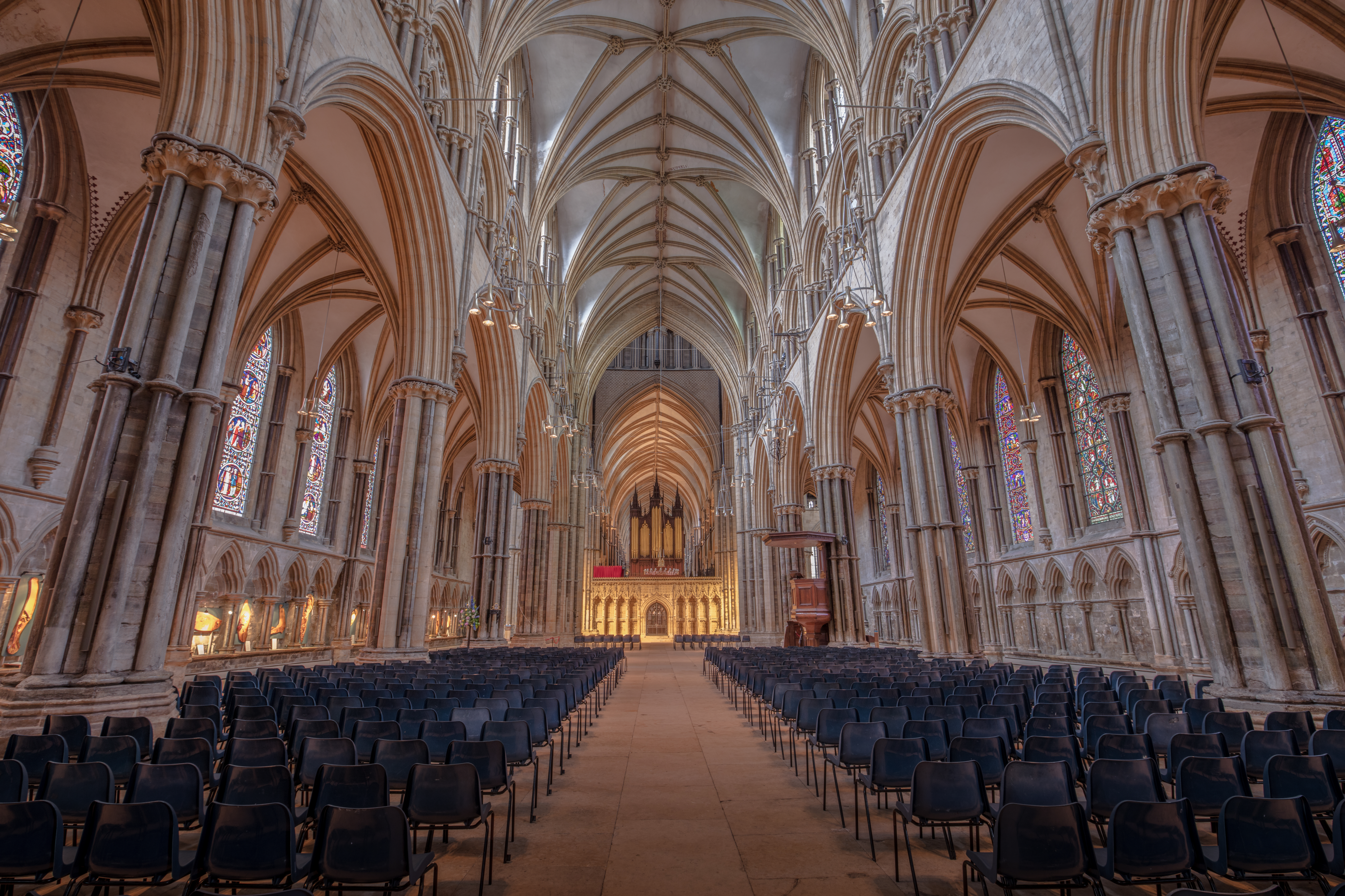 Here is a photograph taken from the nave inside Lincoln Cathedral. Located in Lincoln, Lincolnshire, England, UK.